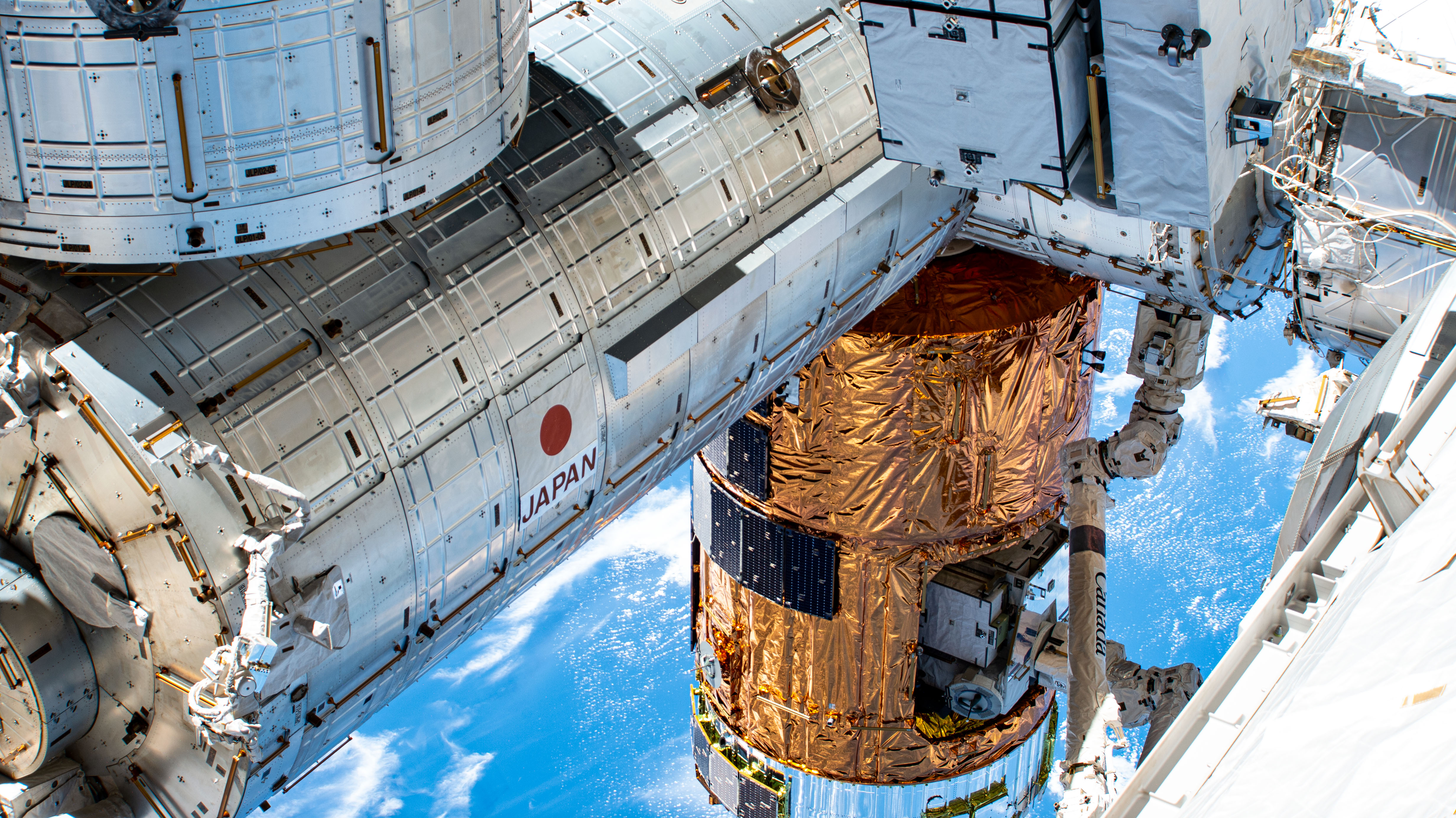 This oblique view from the port side of the International Space Station's truss structure shows JAXA's (Japan Aerospace Exploration Agency) and the Canadian Space Agency's (CSA) contribution to the orbiting lab. Included in this photograph is a major portion of the Kibo laboratory module, the H-II Transfer Vehicle-9 (HTV-9) resupply ship and the Canadarm2 robotic arm.